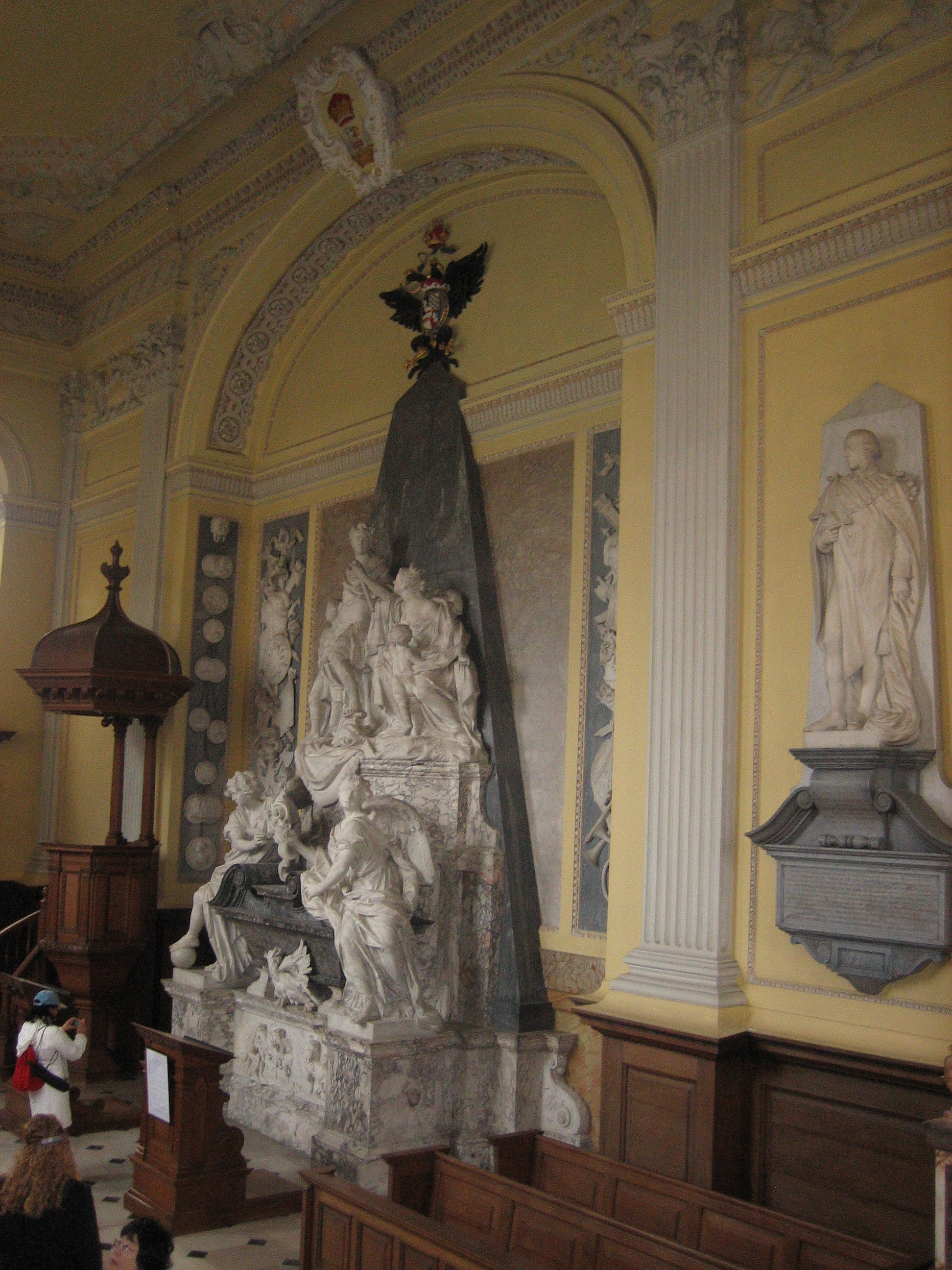 We were not permitted to take photos inside the Palace itself. This is quite the baroque era altar.